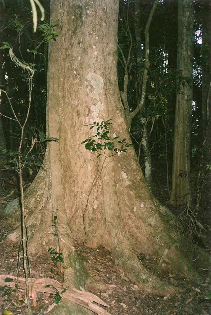 _Lamington_National_Park near Tabletops farm, via Canungra, south east Queensland. Tree in excess of 40 metres tall